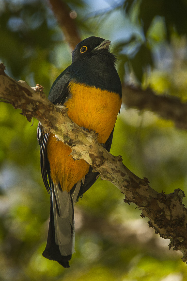 Black-throated Trogon - Brazil_MG_0653